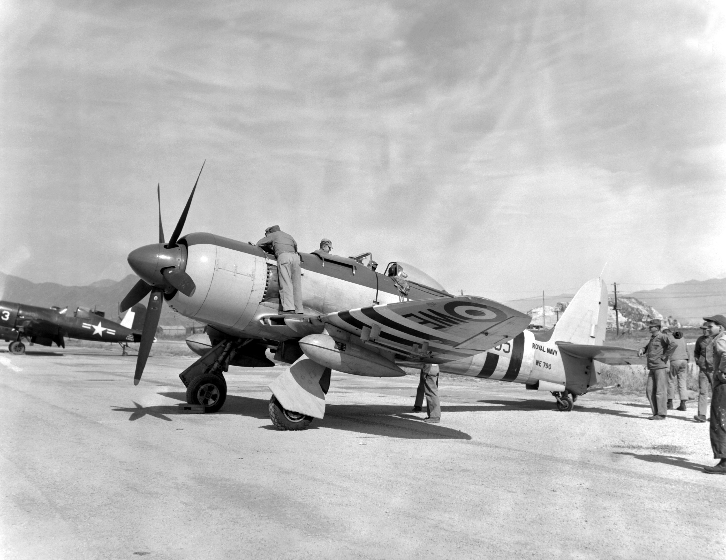 U.S. Marine Corps mechanics service a Royal Navy Hawker Sea Fury FB.11 (s/n WE790). According to the original caption this was a Royal Australian Navy aircraft. RAN 805 and 808 Squadrons operated from the aircraft carrier HMAS Sydney (R17) off Korea between 4 October 1951 and 27 January 1952. In the background is a Vought F4U-4 Corsair. Unusual is the lack of any tail code on either aircraft.Original caption: "BROTHERS IN ARMS--When a Royal Australian Navy aircraft was forced down at a Marine airbase in Korea, the Leatherneck mechanics turned to help the pilot get his ship back into the air. Shown here, several mechanics swarm over the machine as curious onlookers stand by."